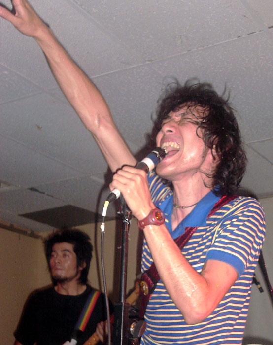 Don Matsuo of Zoobombs, playing at El Salon in Montreal, 10/01/05